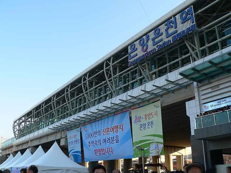 KORAIL Onyangoncheon Station (New Building)